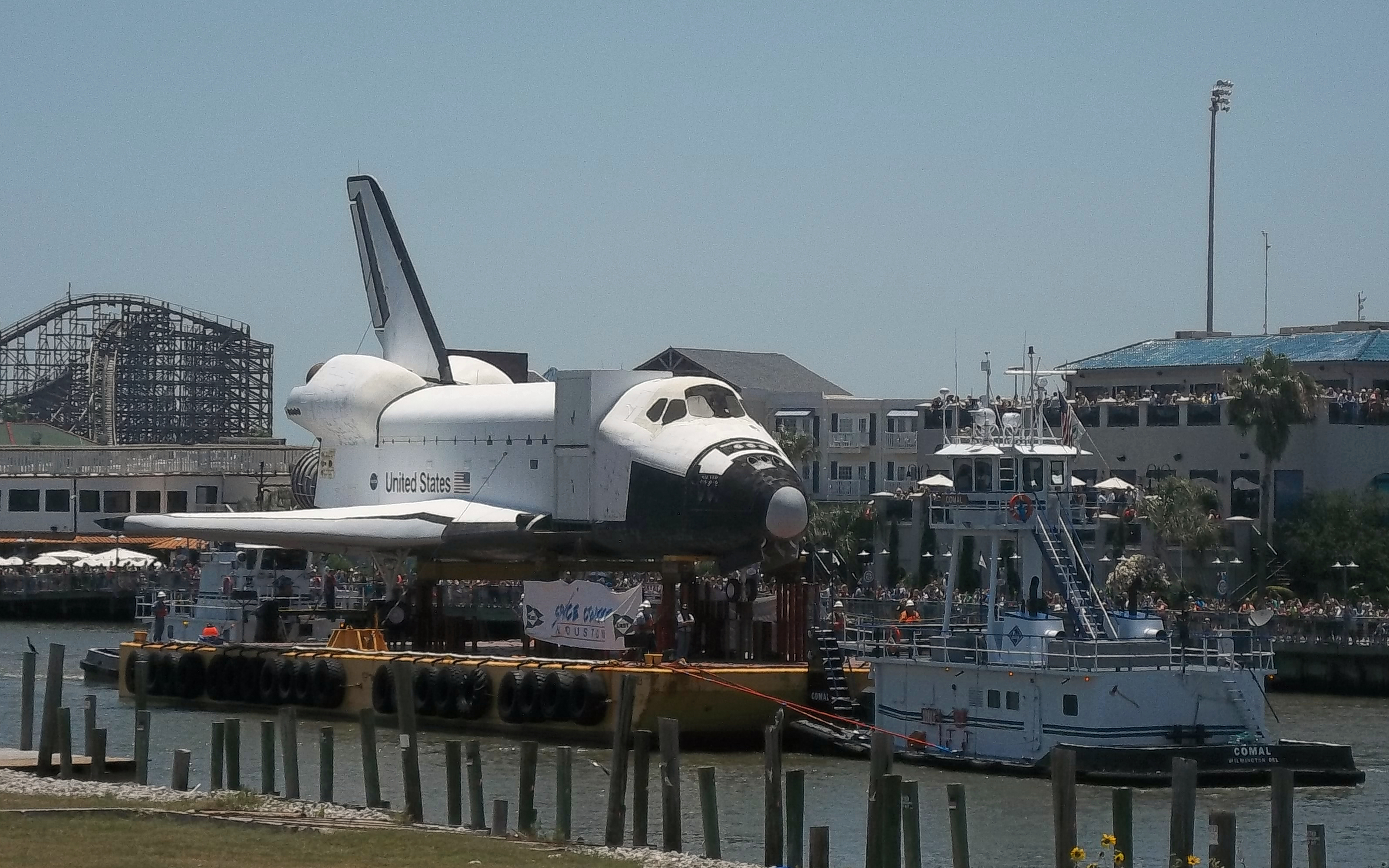 Tugboats take the mockup Space Shuttle Explorer (later renamed Independence) into Clear Creek Channel for display at Johnson Space Center near Houston, Texas.